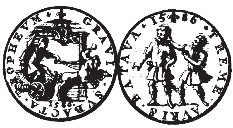 Coin, Siege of Grave by Parma, 1586